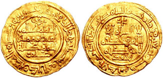 Islamic Dynasties. Ummayids of Spain. Abu'l-Walid Hisham II al-Mu'ayyad billah (Hisham II of Córdoba). First reign, 976-1009. AV Dinar (23mm, 3.18 g). al-Andalus (Cordoba) mint. Dated AH 396 (1006/7 AD). Kalima in three lines across field; symbol above; "Muhammad" below; "Bismillah struck was this dinar in al-Andalus in the year three hundred and ninety and six" around "The Imam Hisham/amir el-muminin/al-Mu'ayyad billah" across field in three lines; symbol above; "Amr" below; Quran 9:33 around. Cf. Kazan 222; Album 353.1; MWI -. VF, wavy flan. Ex Jean Elsen 35 (2 July 1994), lot 419.